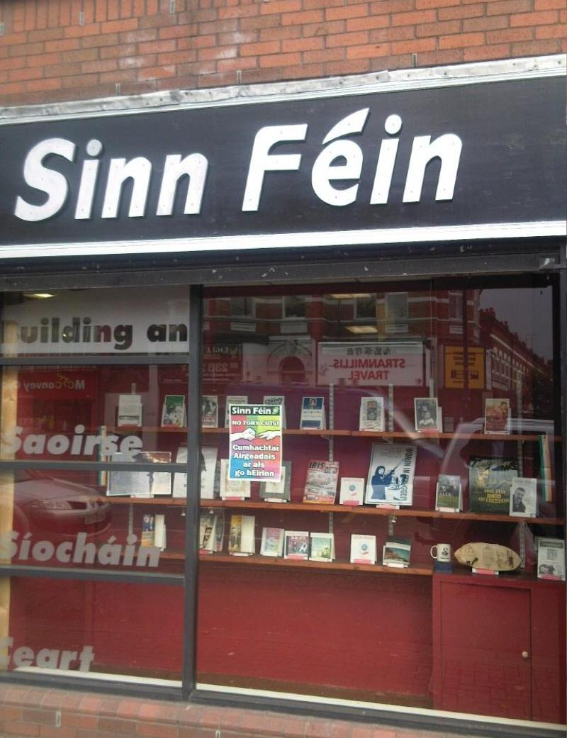 Sinn Fein advice centre and shop on the Ormeau Road, Belfast